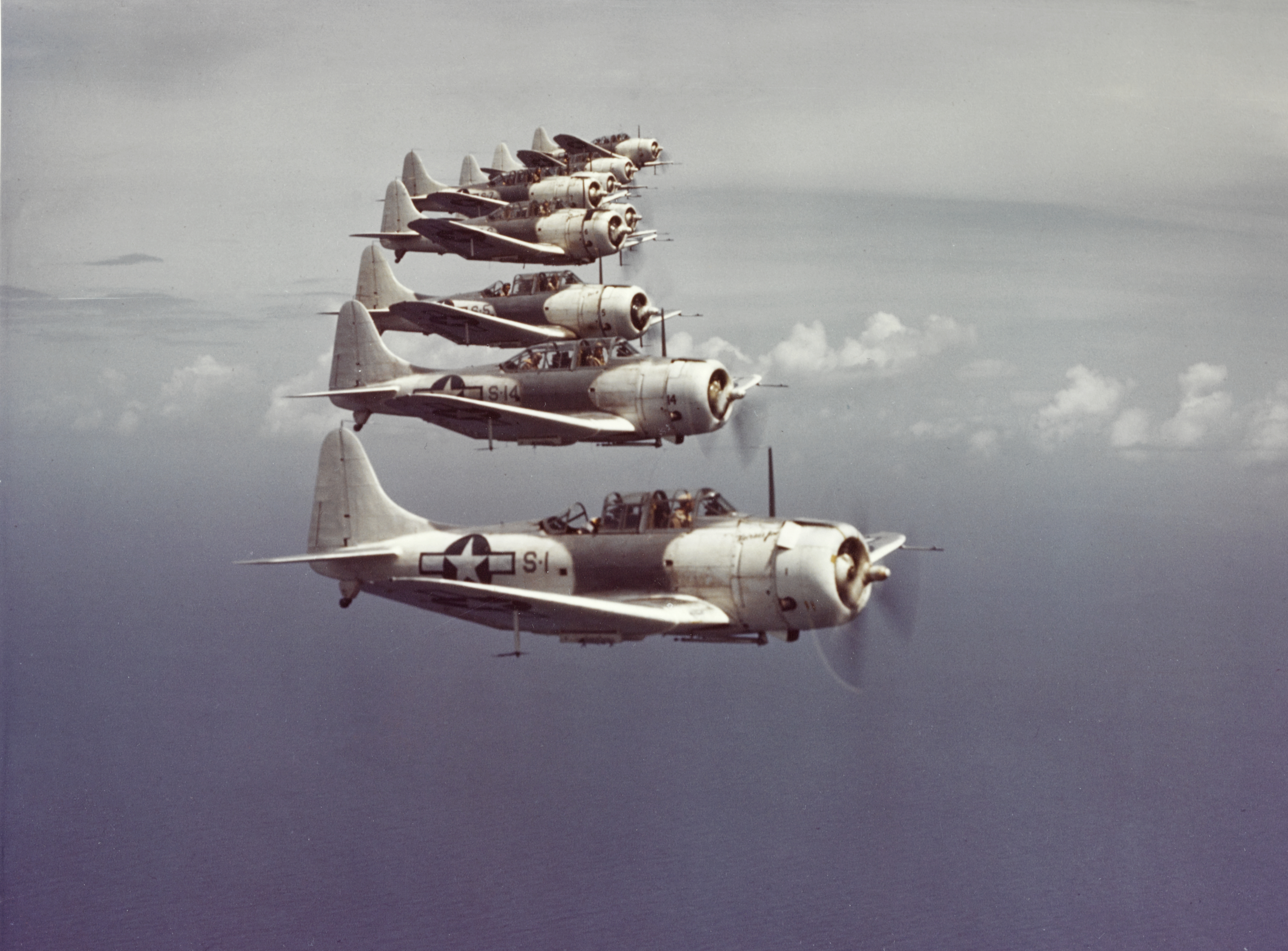 A formation of U.S. Marine Corps Douglas SBD-5 Dauntless dive bombers from Marine Scouting Squadron 3 (VMS-3) "Devilbirds" in flight near the Virgin Islands. Based at Marine Corps Air Station Bourne Field, St. Thomas, Virgin Islands, during the entire course of its existence, the squadron logged patrols from 1934 to 1944. Included among them were flights on 11-14 May 1942 to circumvent the expected escape attempt of the French Fleet for Guadaloupe. Note the Atlantic Theater camouflage on the aircraft.